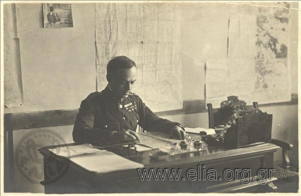 Greek colonel Ptolemaios Sarigiannis, Deputy of Chief of Staff of expedionary Army of Asia MinorTürkçe: Yunan albay Ptolemaios Sarigiannis, Küçük Asya Ordusu Genelkurmay Başkan Yardımcısı